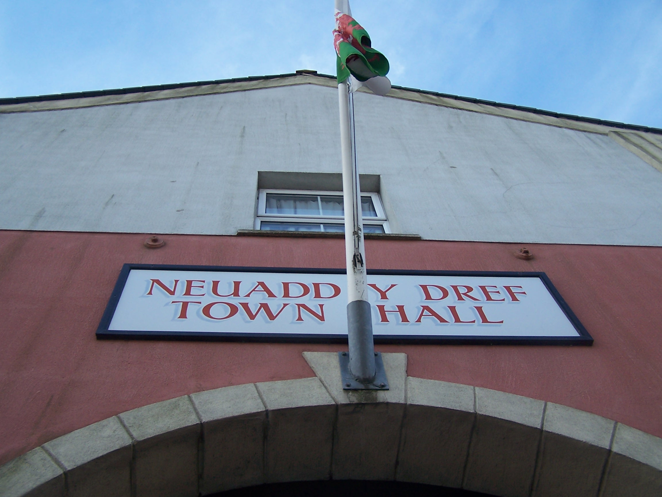 Glynneath Town Hall First published by Aberdare Blog